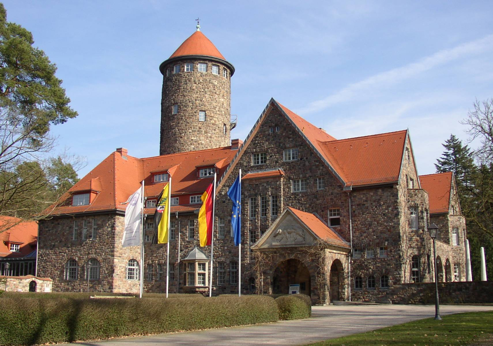 Wendgräben Castle in Zeppernick in Saxony-Anhalt, Germany